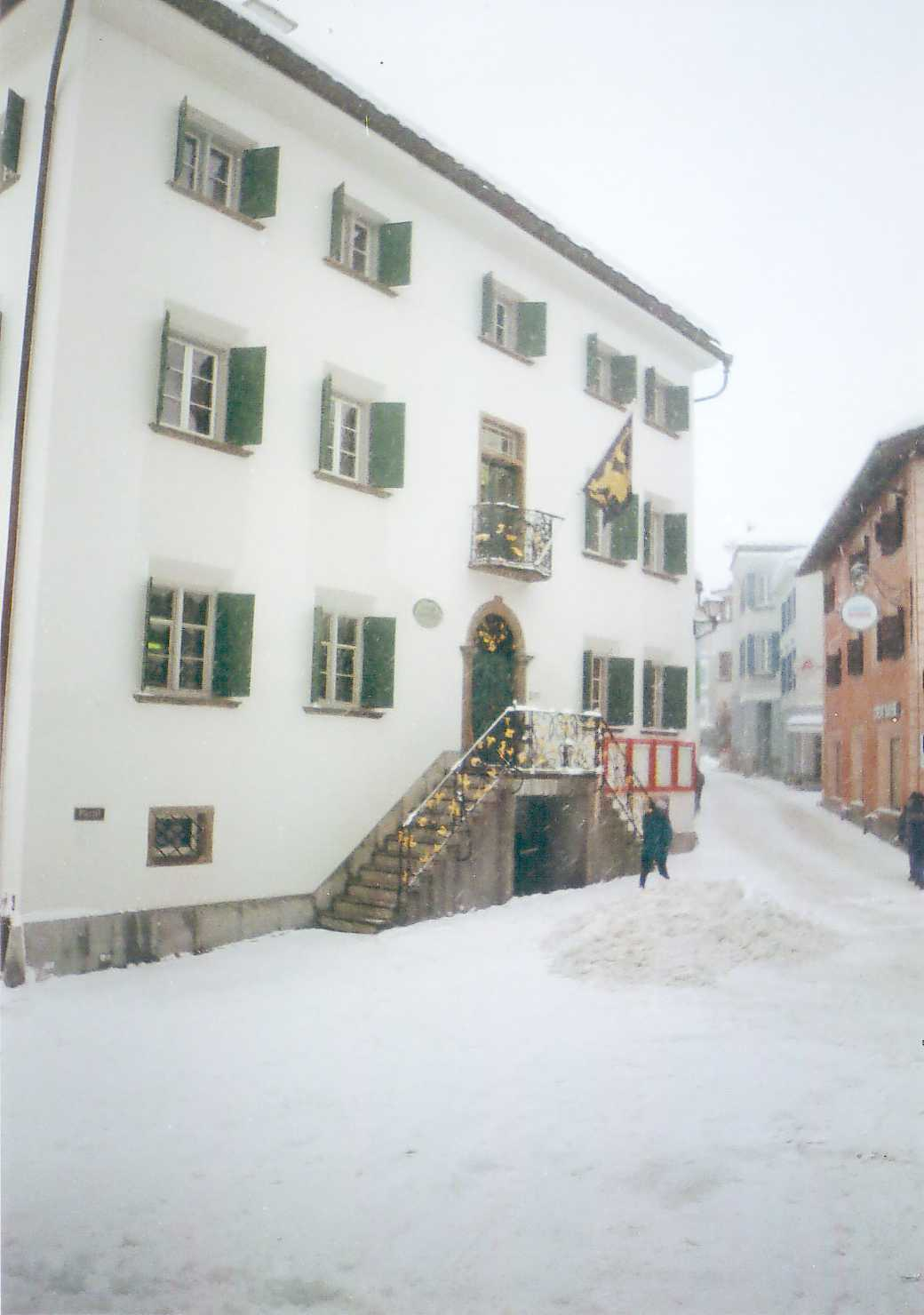 Samedan (city hall) in winter 2005 (1)